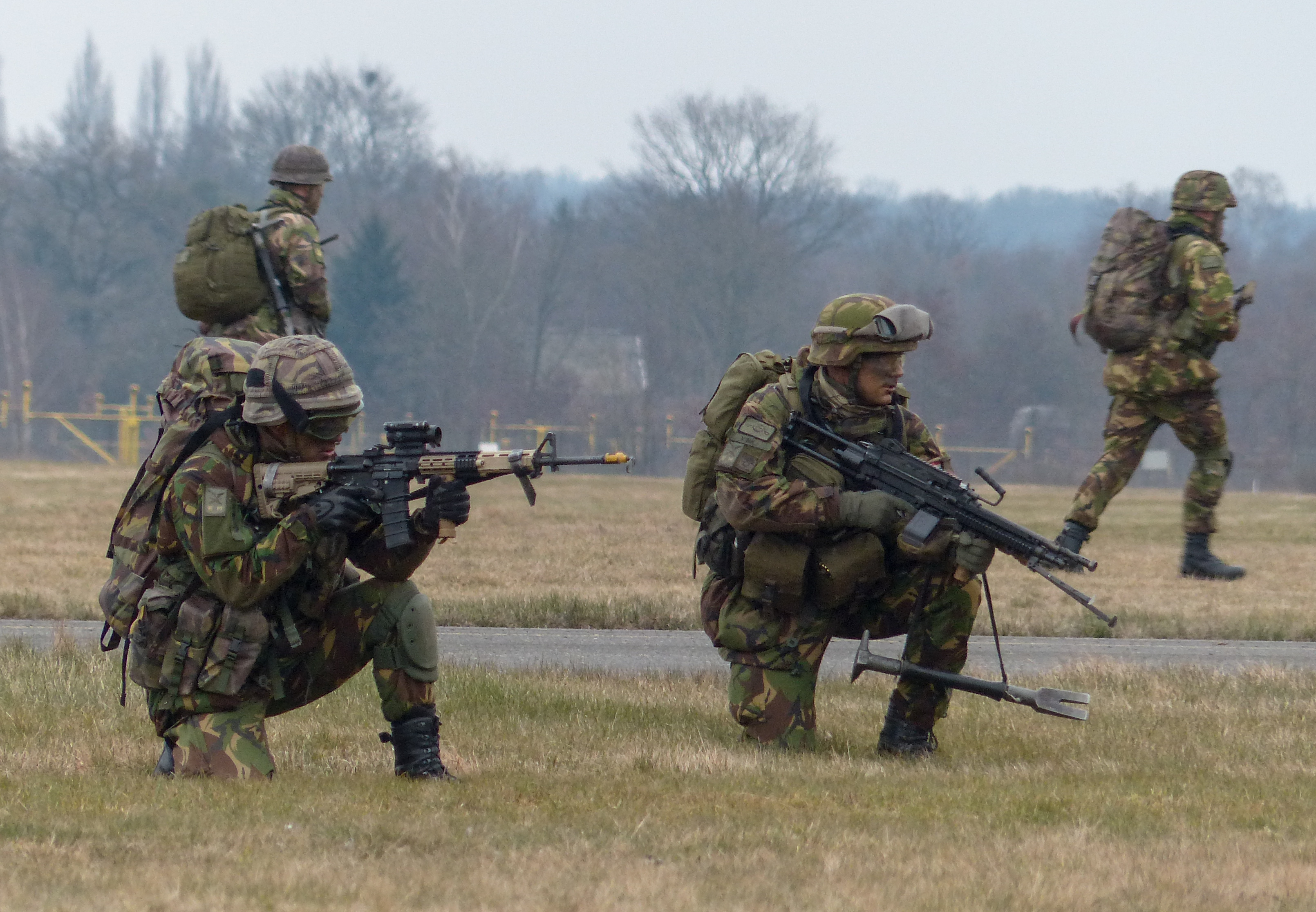 From 18-29 march a big exercise, Cerberus Guard was held by Dutch Air Mobile forces in conjunction with the Royal Netherlands Air Force. Objective was to exercise in urban areas as recent wartime experiences in Iraq and Afghanistan had necessitated this kind of exercise. On the 20th march there was a mock attack on the defunkt Twenthe Airbase. From there the units mingled with the population in the direct vicinity of the base. The photos were taken during a cold, snowy, overcast day with cold gusts of wind and subzero temperatures. The FZ200 coped well with the environment.